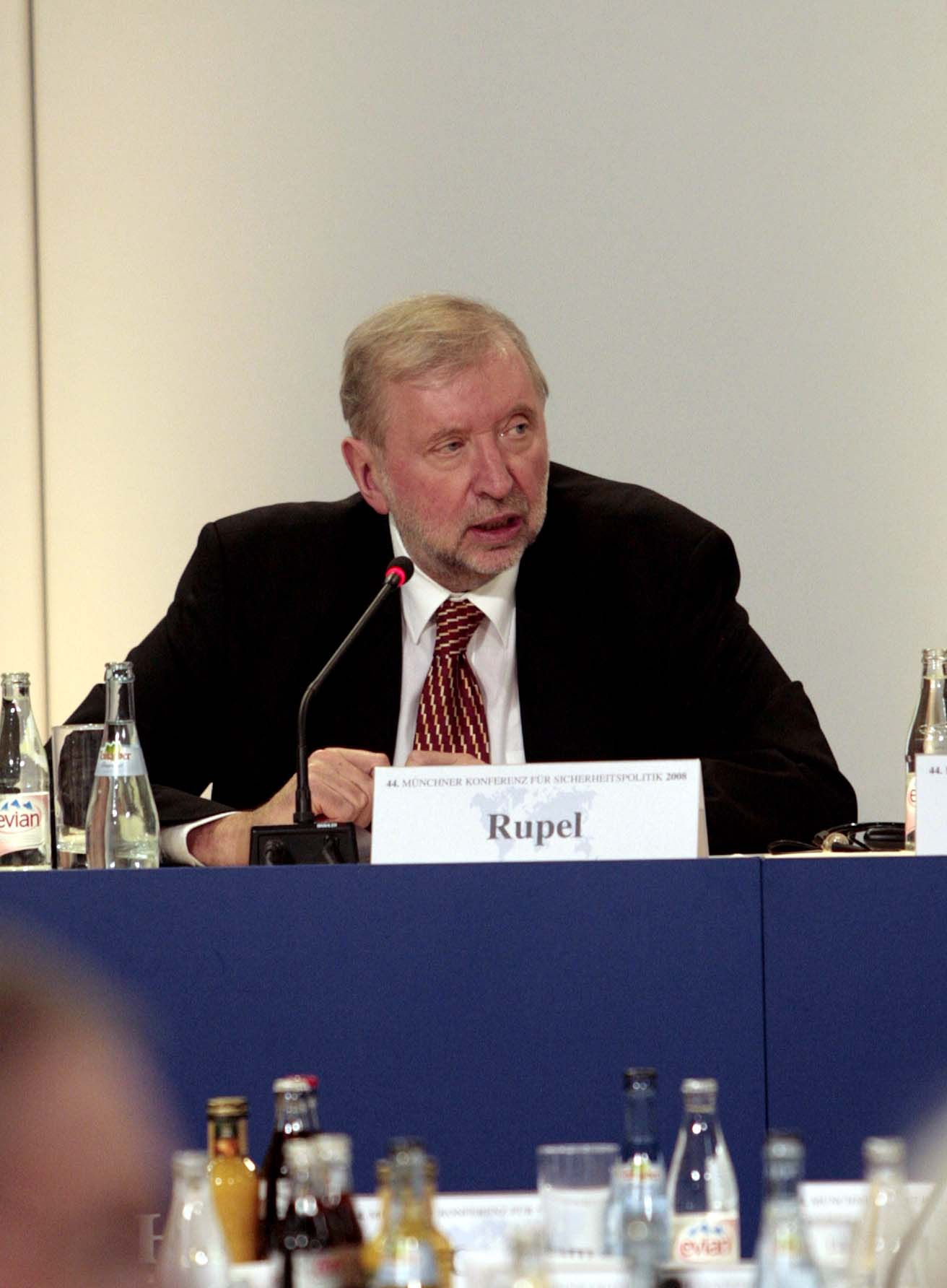 44th Munich Security Conference 2008: The Minister of Foreign Affairs, Republic of Slovenia, Dr. Dimitrij Rupel.